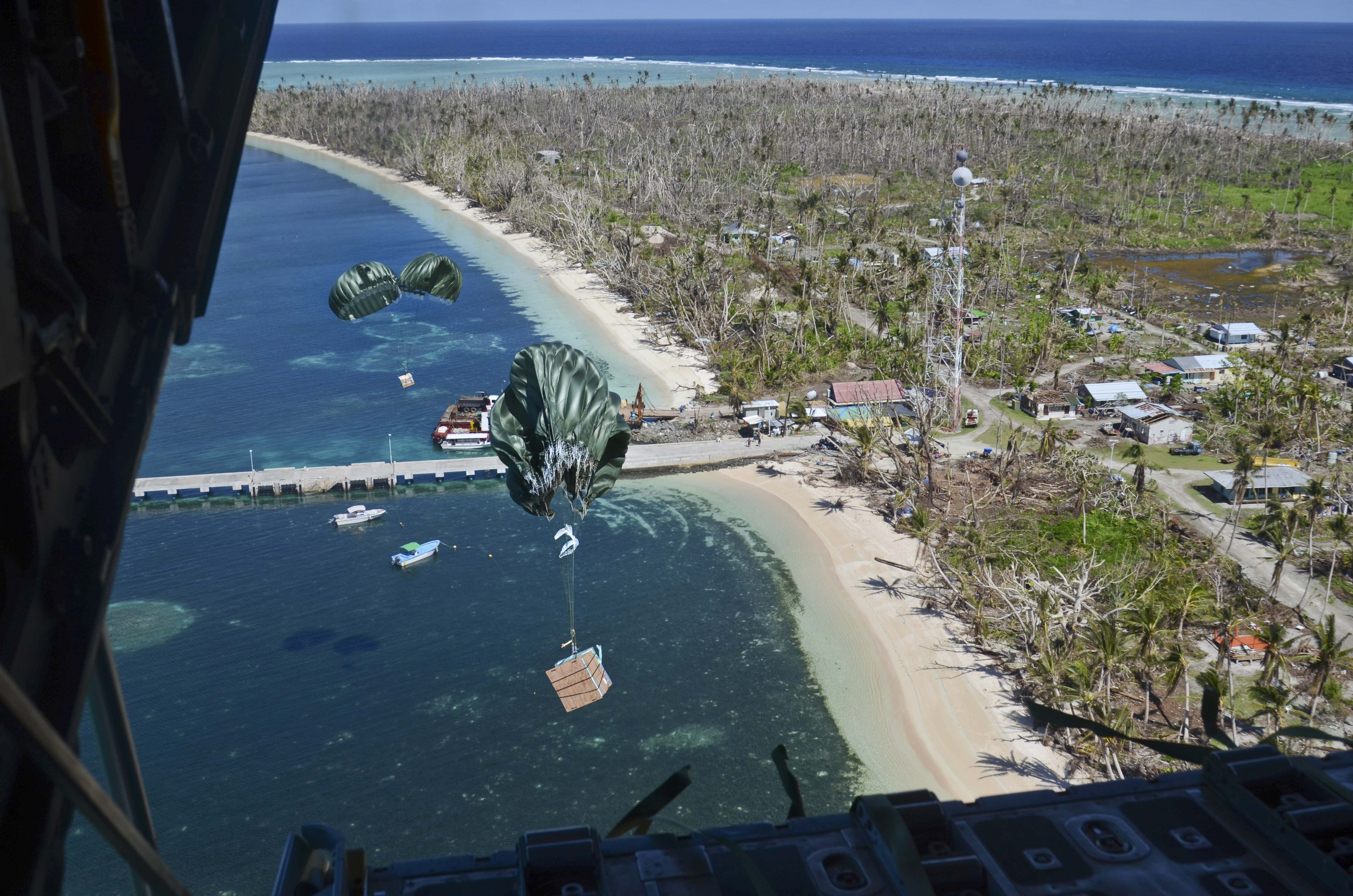 Cargo drops from a U.S. Air Force C-130 Hercules aircraft over the Pacific Ocean toward a landing zone on the shore of Kayangel Island during the 62nd annual Operation Christmas Drop Dec. 11, 2013. Christmas Drop started in 1952 as a training mission and has since become the longest running Department of Defense mission in full operation as well as the longest running humanitarian airlift in the world.